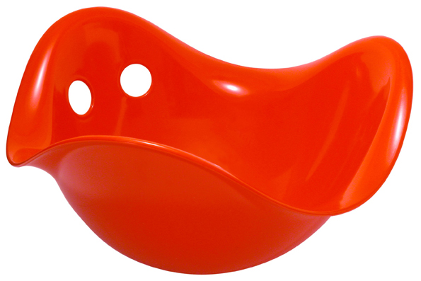 red Bilibo